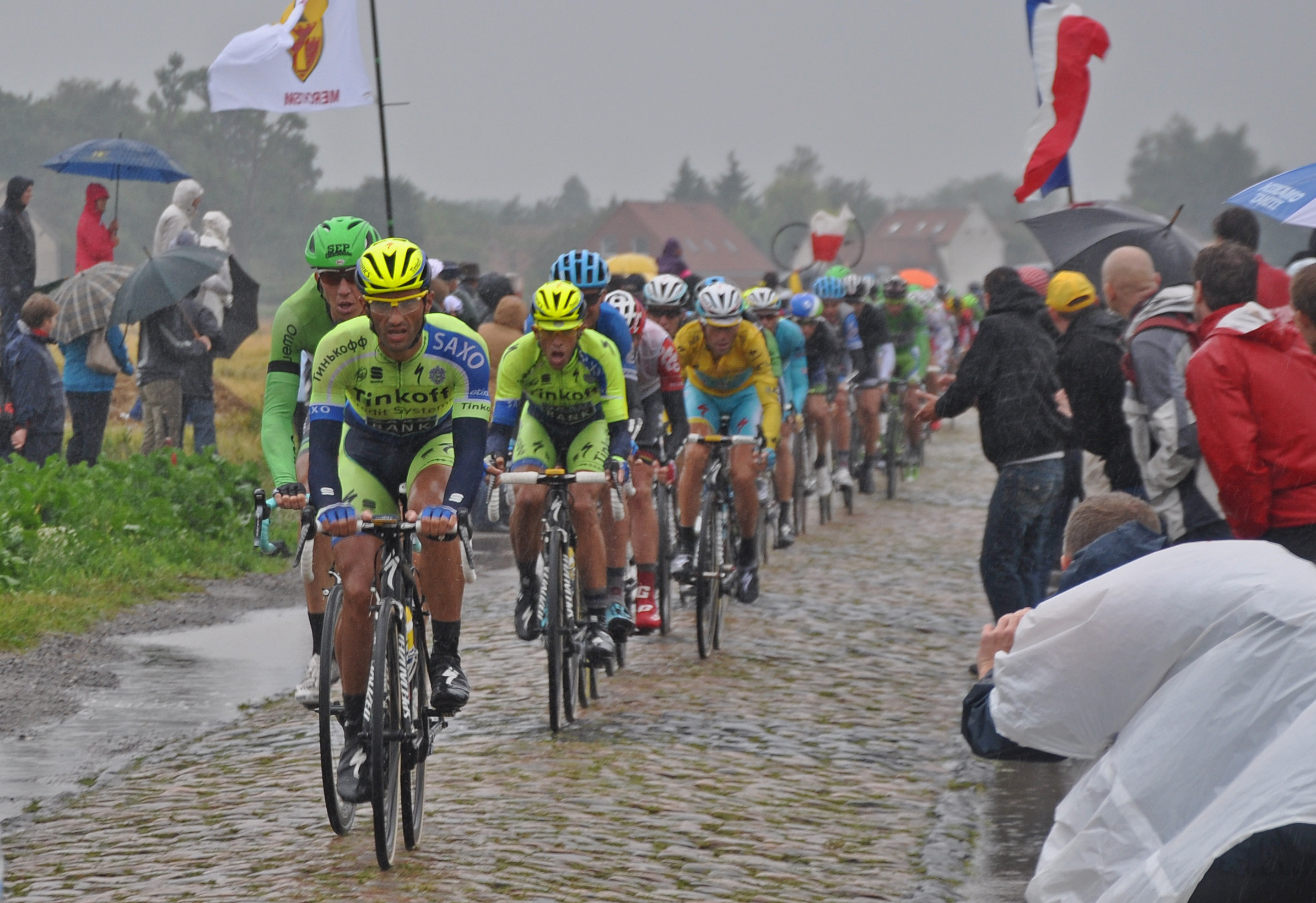 Le peloton TDF2014 Etape 5 Gruson